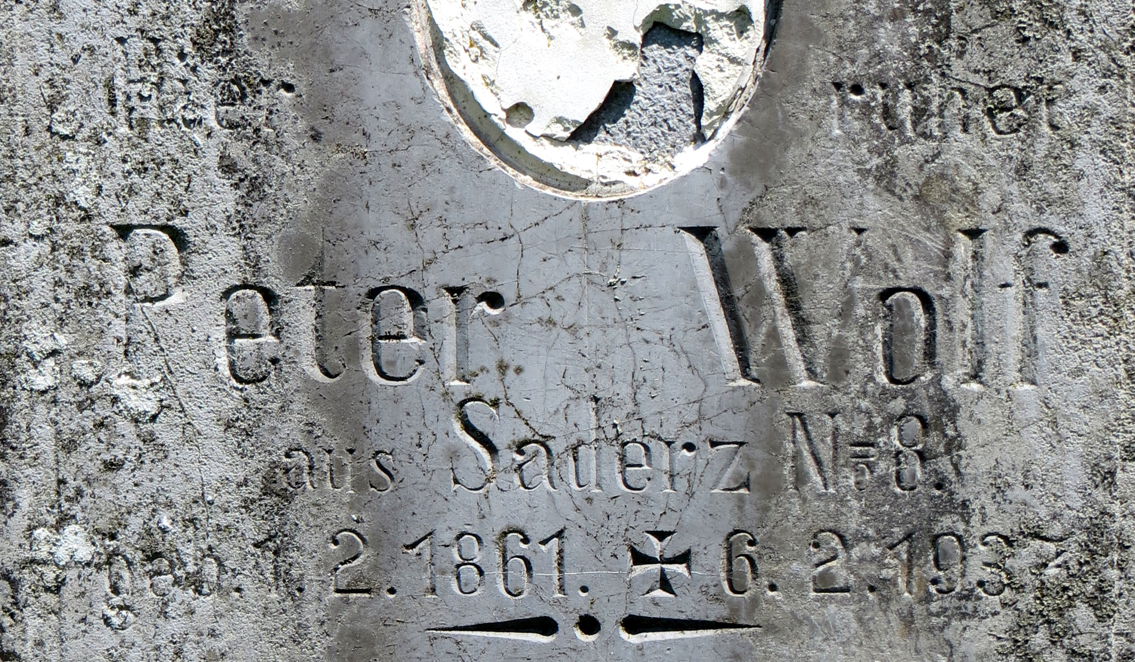 Gravestone detail in the hamlet of Videm, Knežja Lipa, Slovenia mentioning Zaderc (German: Saderz), Municipality of Kočevje, Slovenia